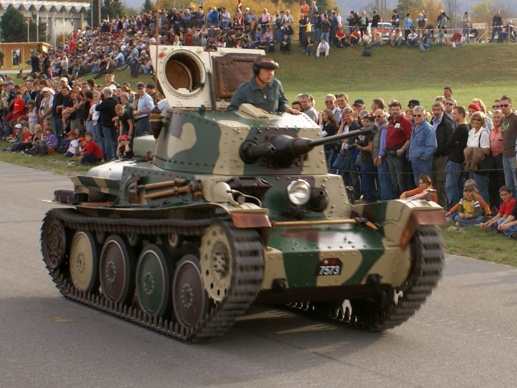 Swiss Army. Armoured car 39 "PRAGA" (Germany: Panzer 38(t)). Czech import 1938-39. Participating in the "Steel Parade" of the 2006 Army Days, Thun.